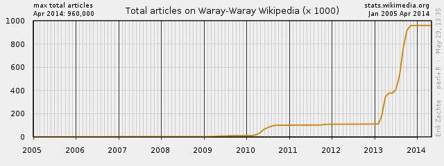 Total articles on Waray-Waray Wikipedia, PlotTotalArticlesWAR January 2005 - April 2014